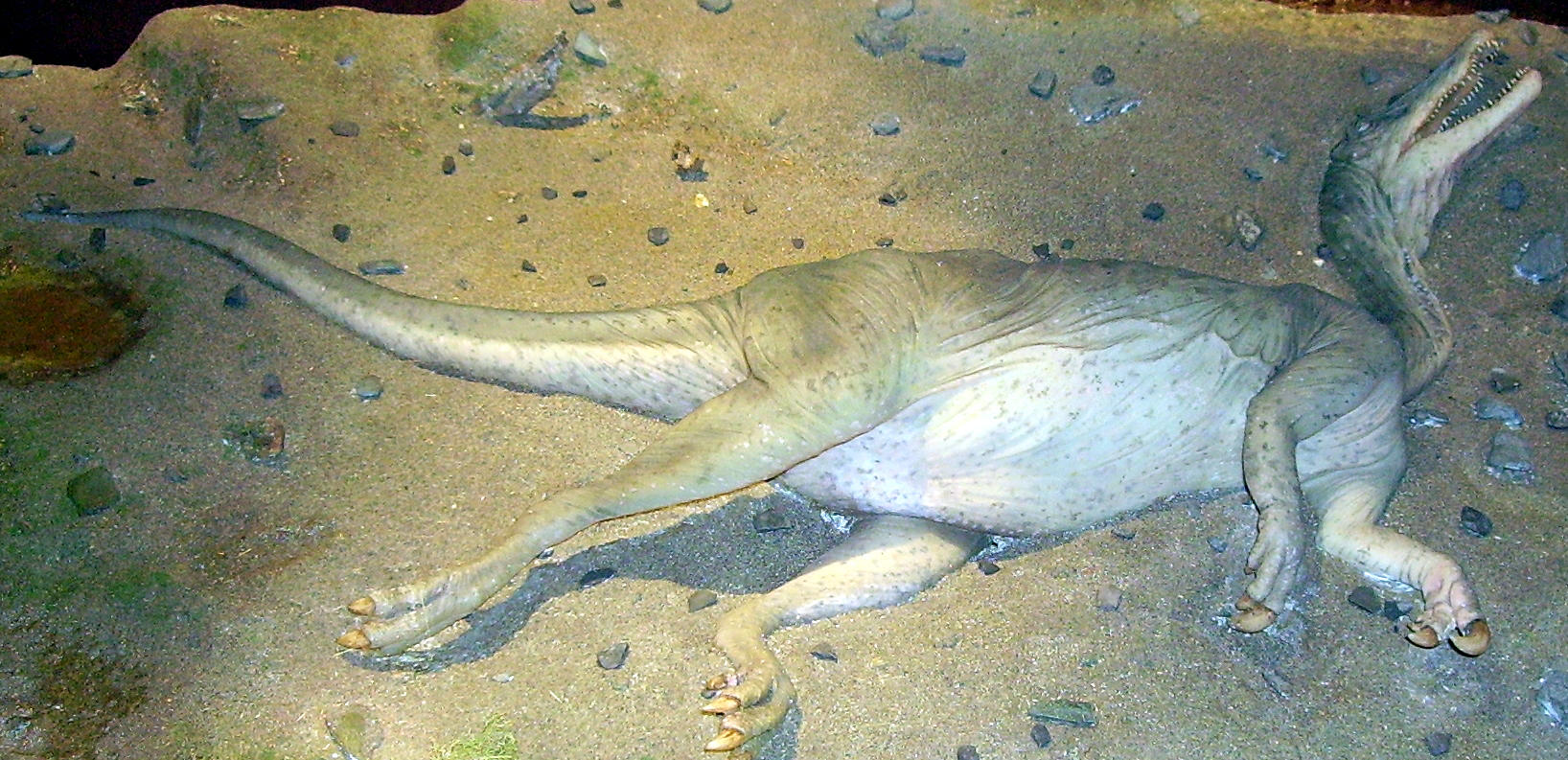 Reconstruction of the holotype carcase of Baryonyx walkeri, based on the type specimen - Natural History Museum, London. Partially pronated hands and "shrink-wrapping" can be explained by post-mortem decay.